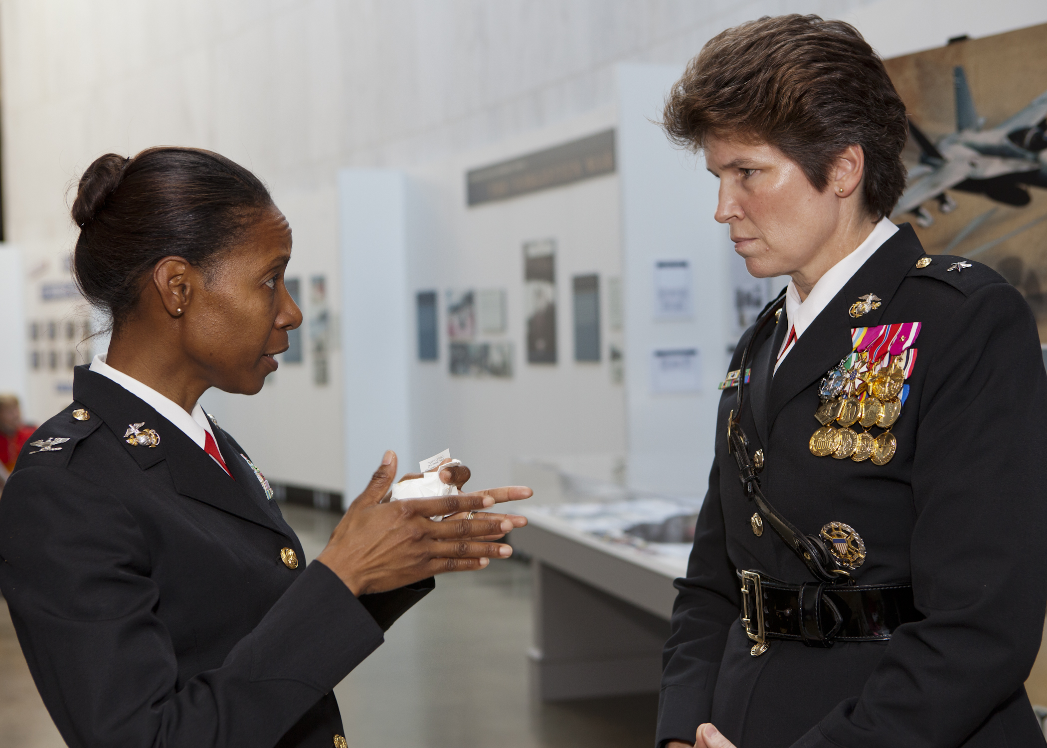 The Sunset Parade host, the Commanding General of Marine Corps Recruit Depot Parris Island and Eastern Recruiting Region, Brig. Gen. Lori Reynolds, right, speaks with Colonel Lorna Mahlock during the parade reception at the Women in Military Service for America Memorial in Arlington, Va., June 24, 2014. Sunset Parades are held every Tuesday at the Marine Corps War Memorial during the summer months. (U.S. Marine Corps photo by Cpl. Tia Dufour/Released)